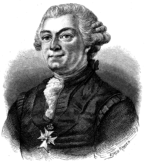 Swedish architect Carl Fredrik Adelcrantz. Woodcut by Evald Hansen. Image published in Svenska Familj-Journalen 1881